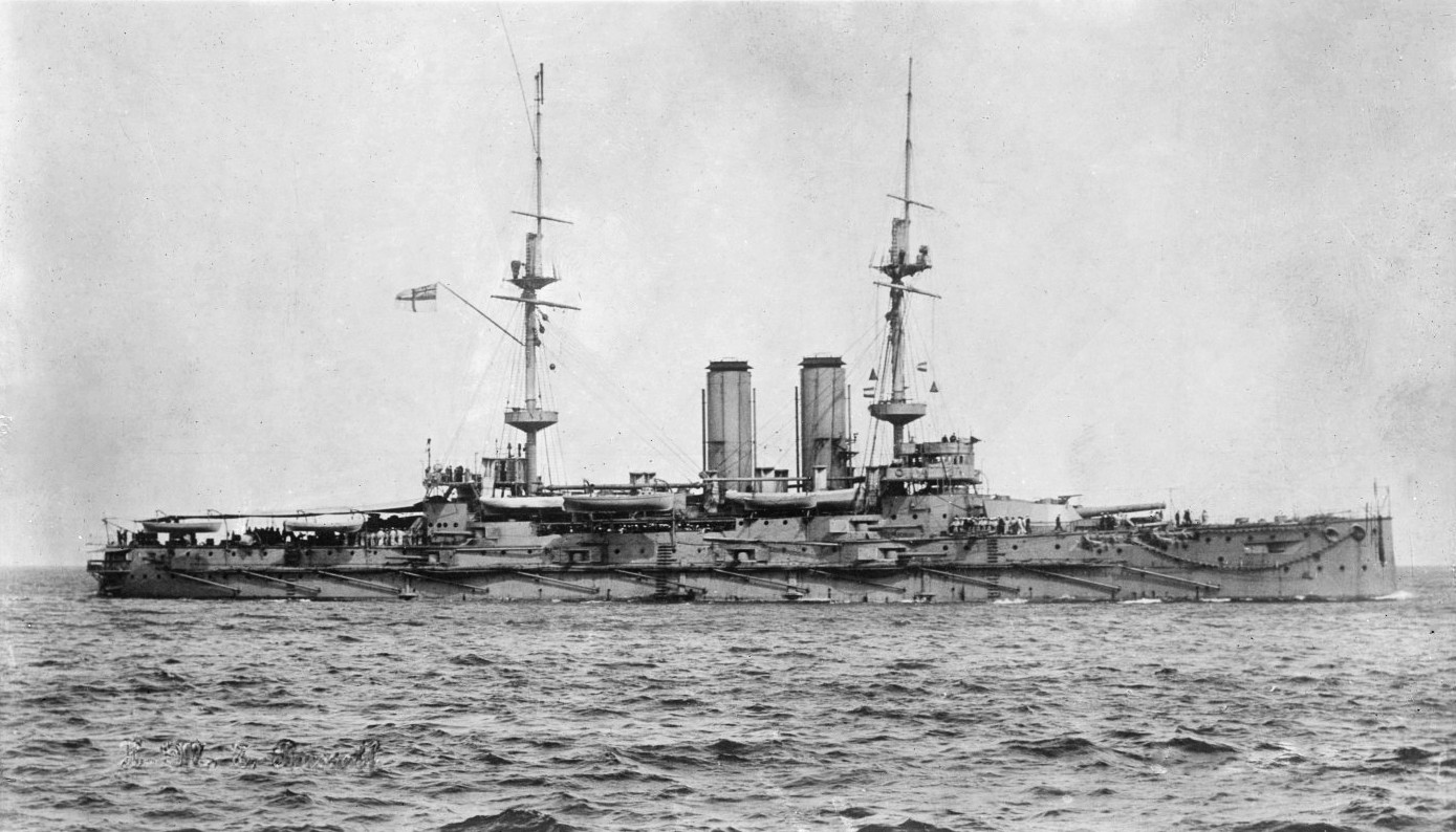 Photograph of British battleship HMS Russell. "Cassar Malta" appears on the bottom right.